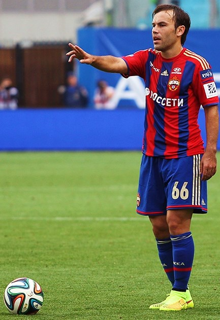 Bibras Natkho